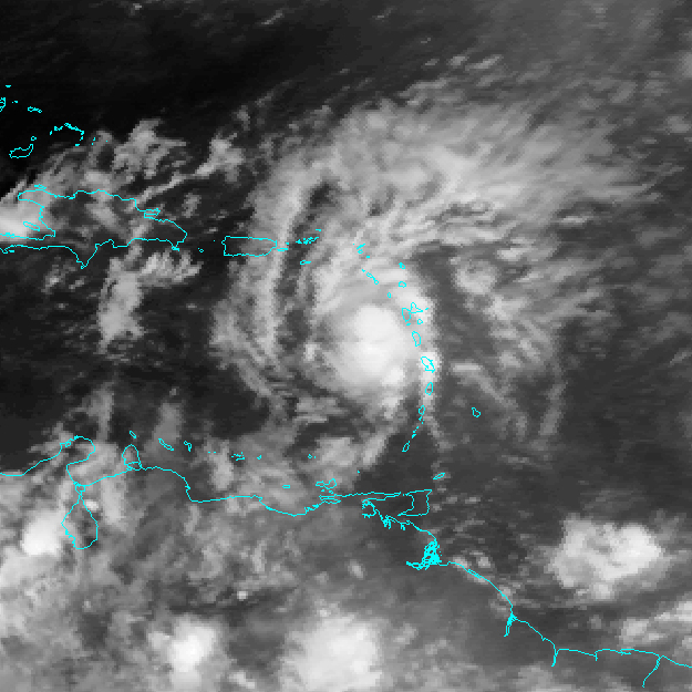 Tropical Storm Cindy on August 15, 1993